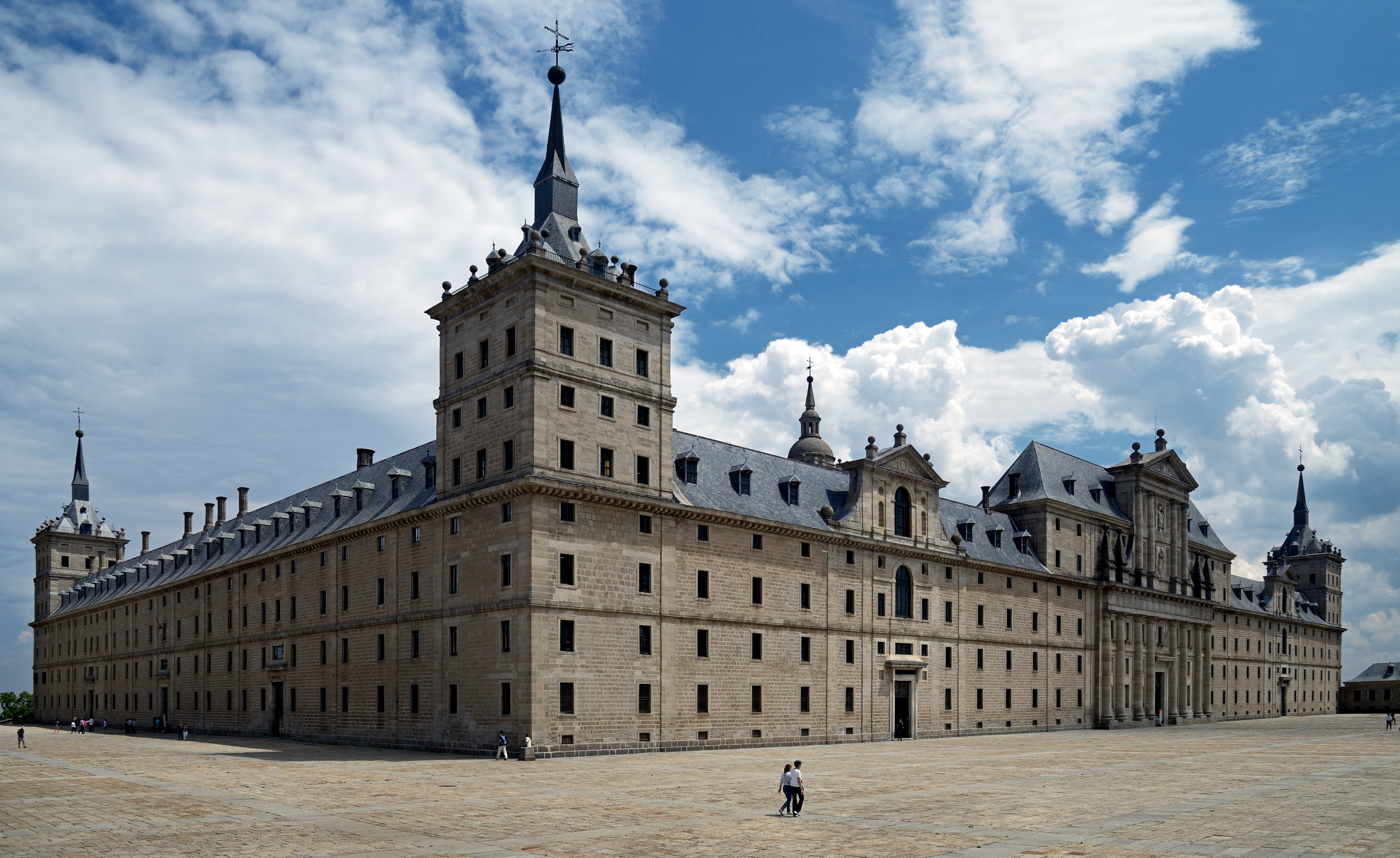 El Escorial. View from the north-west